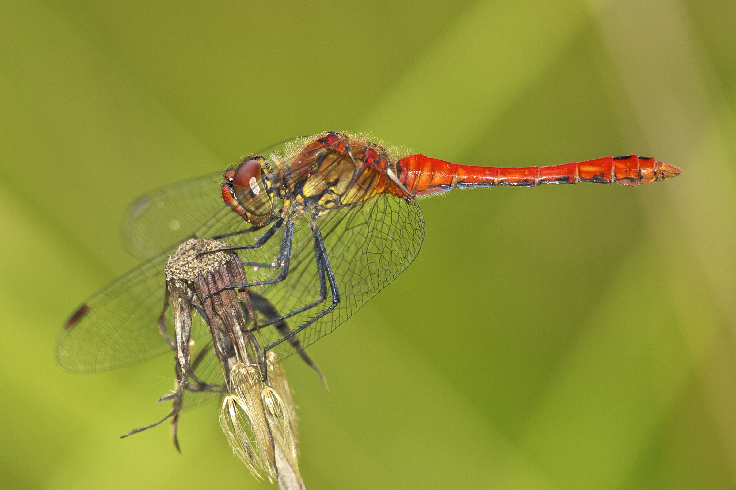 Male Ruddy Darter (Sympetrum sanguineum), Chemnitz, Germany